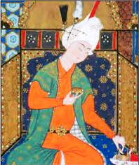 Painting of Jahn in The Shahnama of Shah Tahmasp